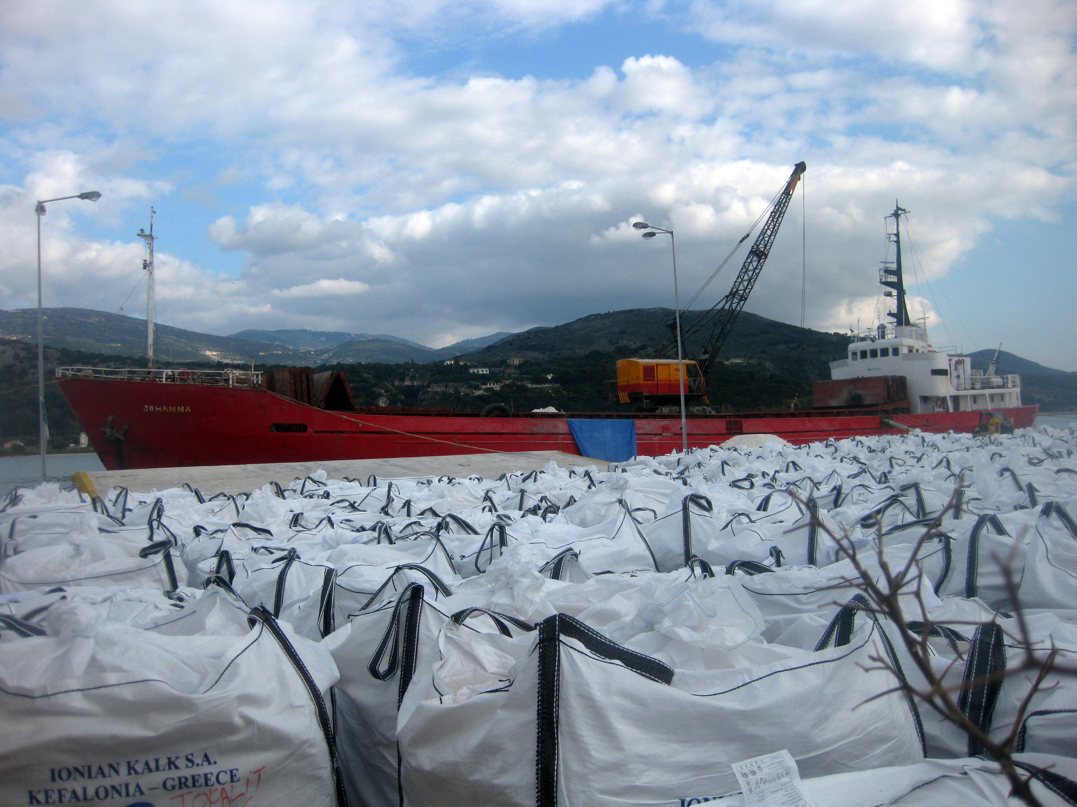 "Iokalit" calcium carbonate exported from Kefalonia, Greece